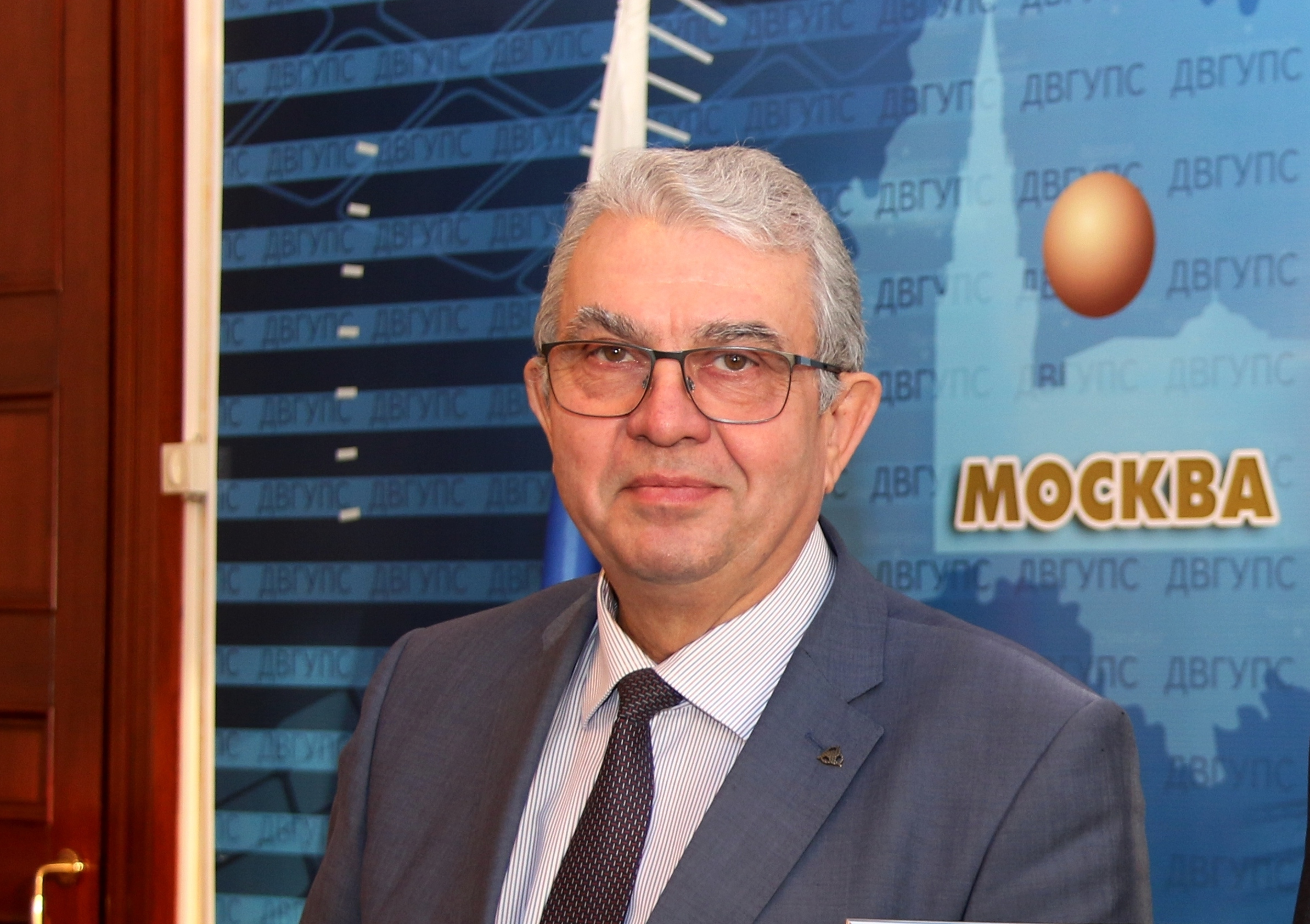 Юрий Анатольевич Давыдов